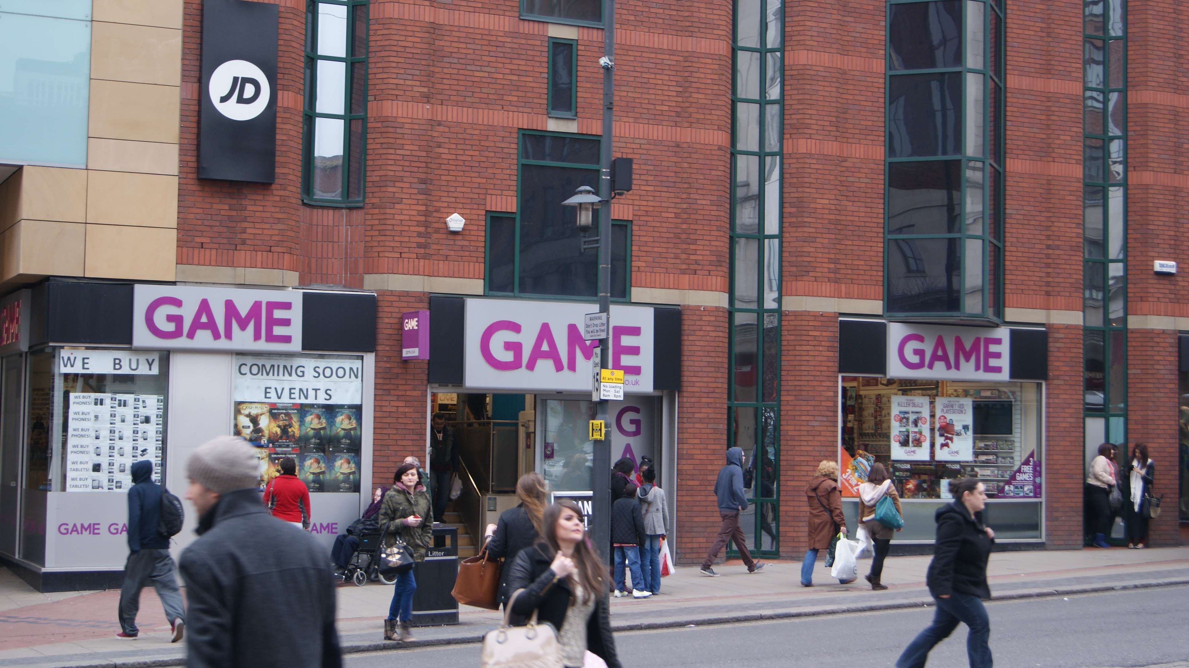 Game on the front of the Core on the Headrow, Leeds, West Yorkshire. Taken on the afternoon of Wednesday the 20th of February 2013.